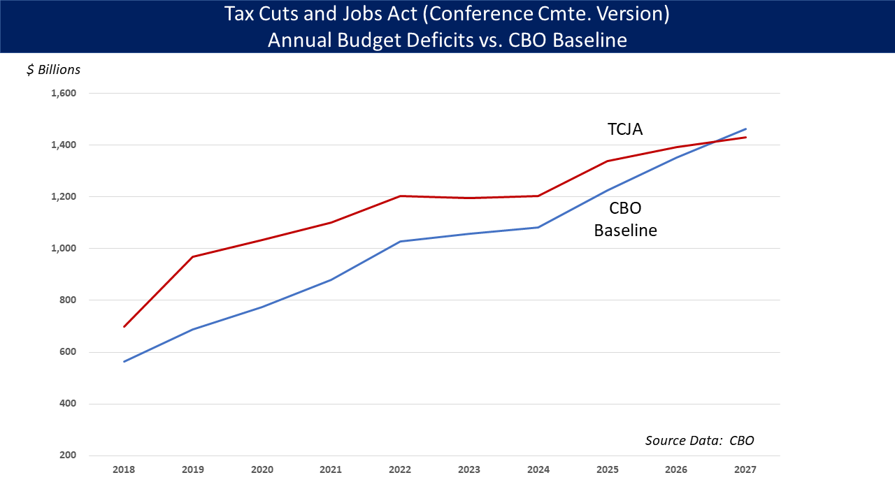 U.S. annual budget deficits under President Trump's "Tax Cuts and Jobs Act" as passed by the House vs. the CBO June 2017 current law baseline.